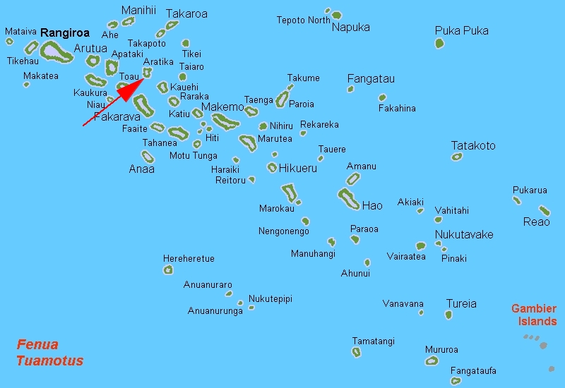 map Tuomotu islands, French Polynesia